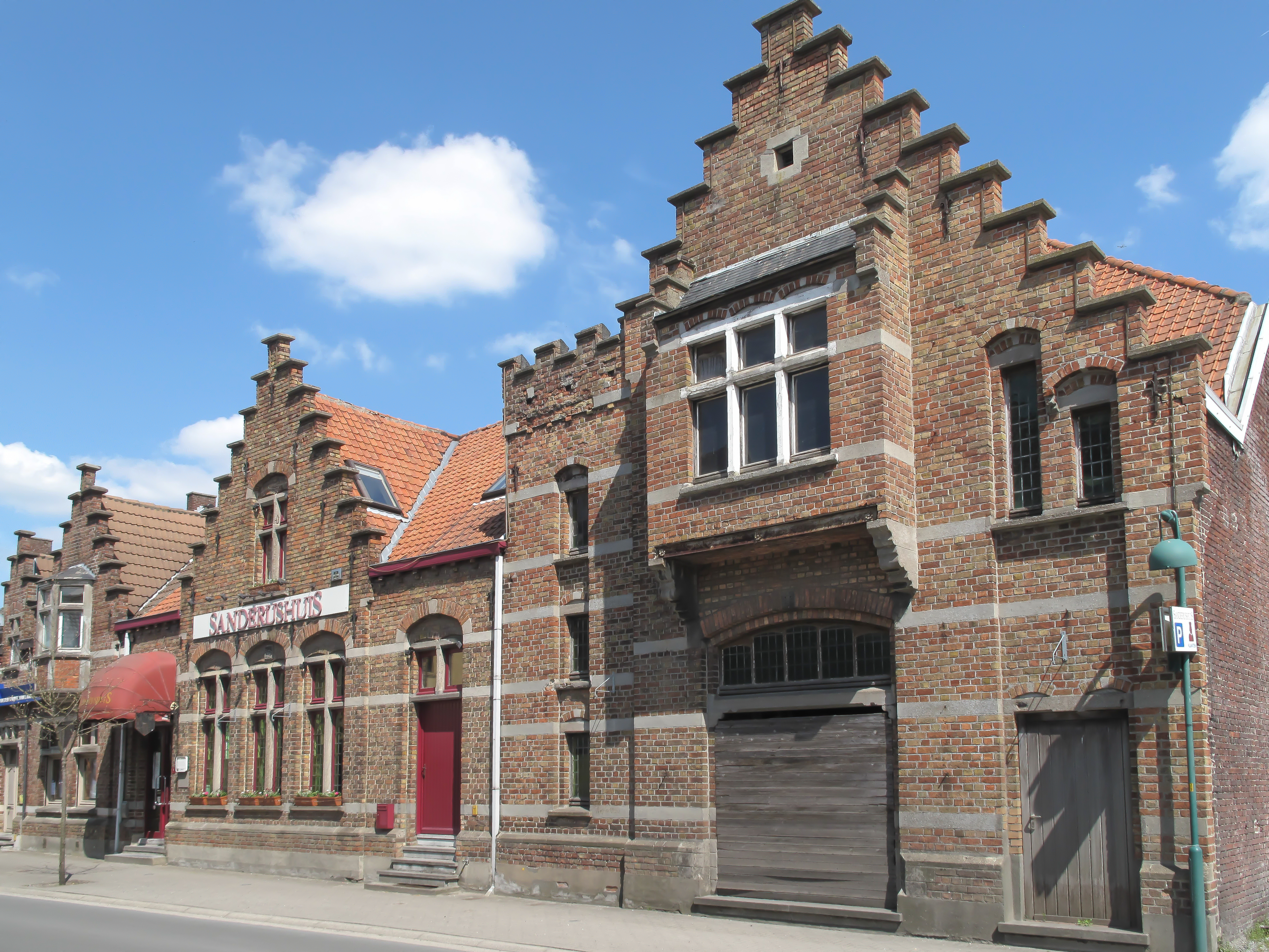 Sleidinge, monumental houses at Dorp 4 tm 6